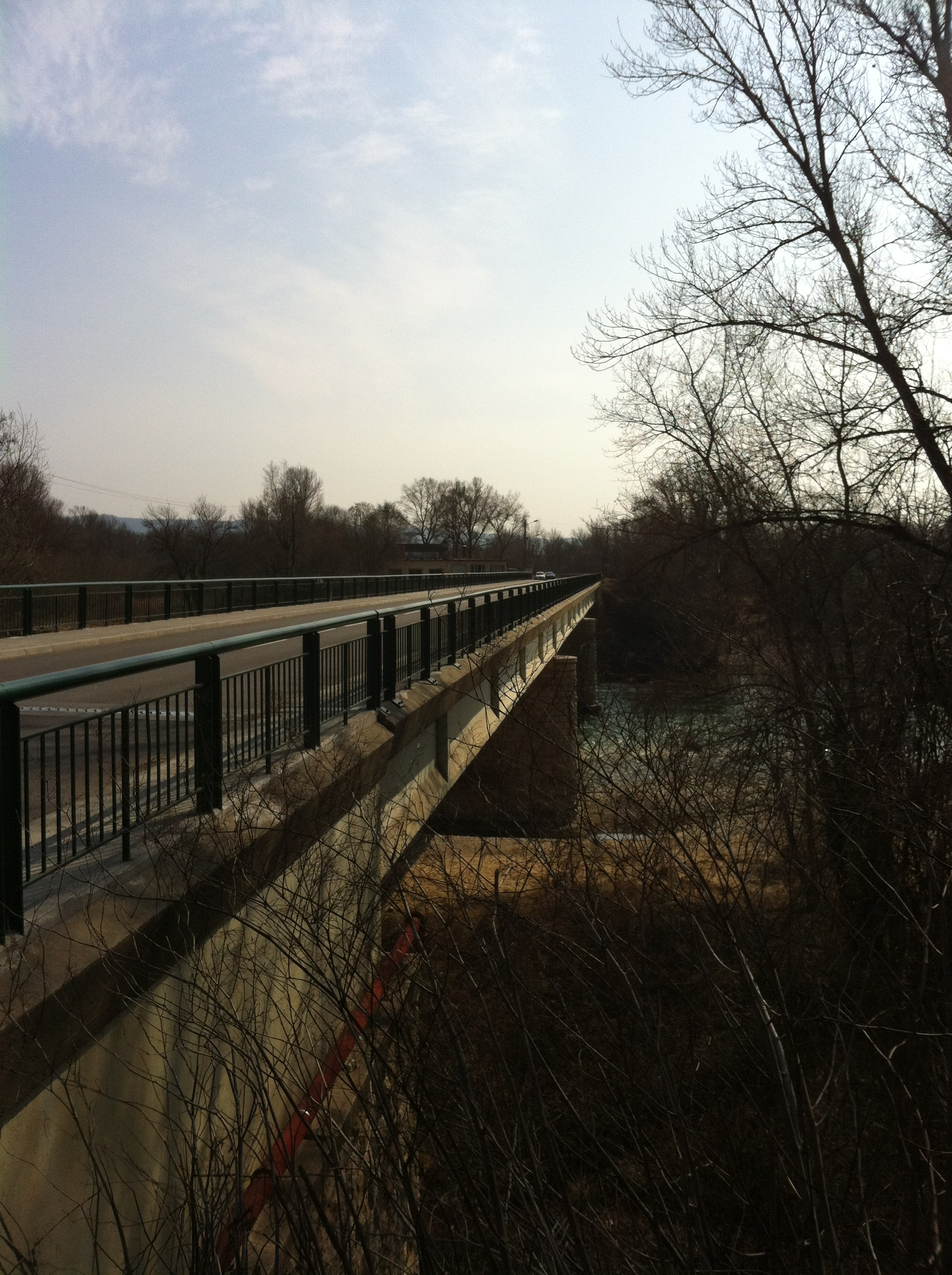 Bridge of Port-Galland.